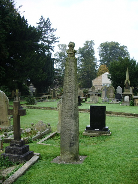 St Mary's and All Saints Church, Whalley, Celtic Cross 3, near to Billington, Lancashire, Great Britain.